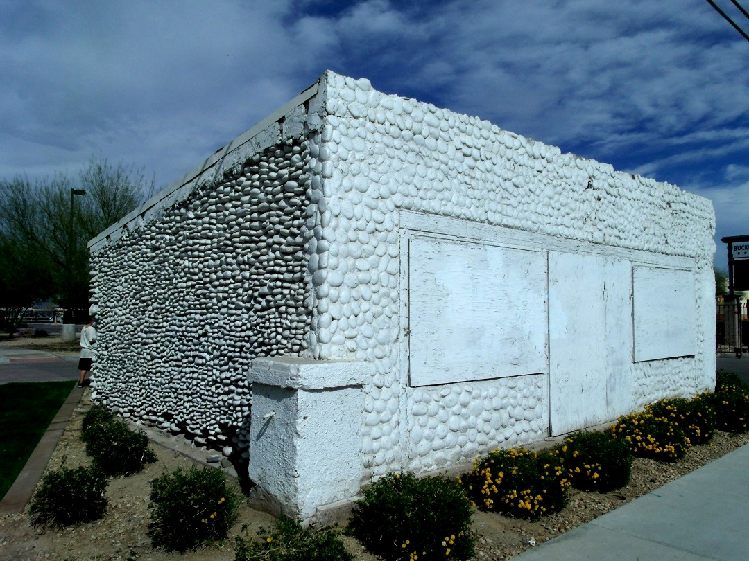 The Jones-Montoya House, located at 1008 E. Buckeye Road, was built in 1879 and is one of the oldest known houses in Phoenix, Az. Designated as a landmark with Historic Preservation-Landmark (HP-L) overlay zoning Historic Preservation Individually Designated Properties.